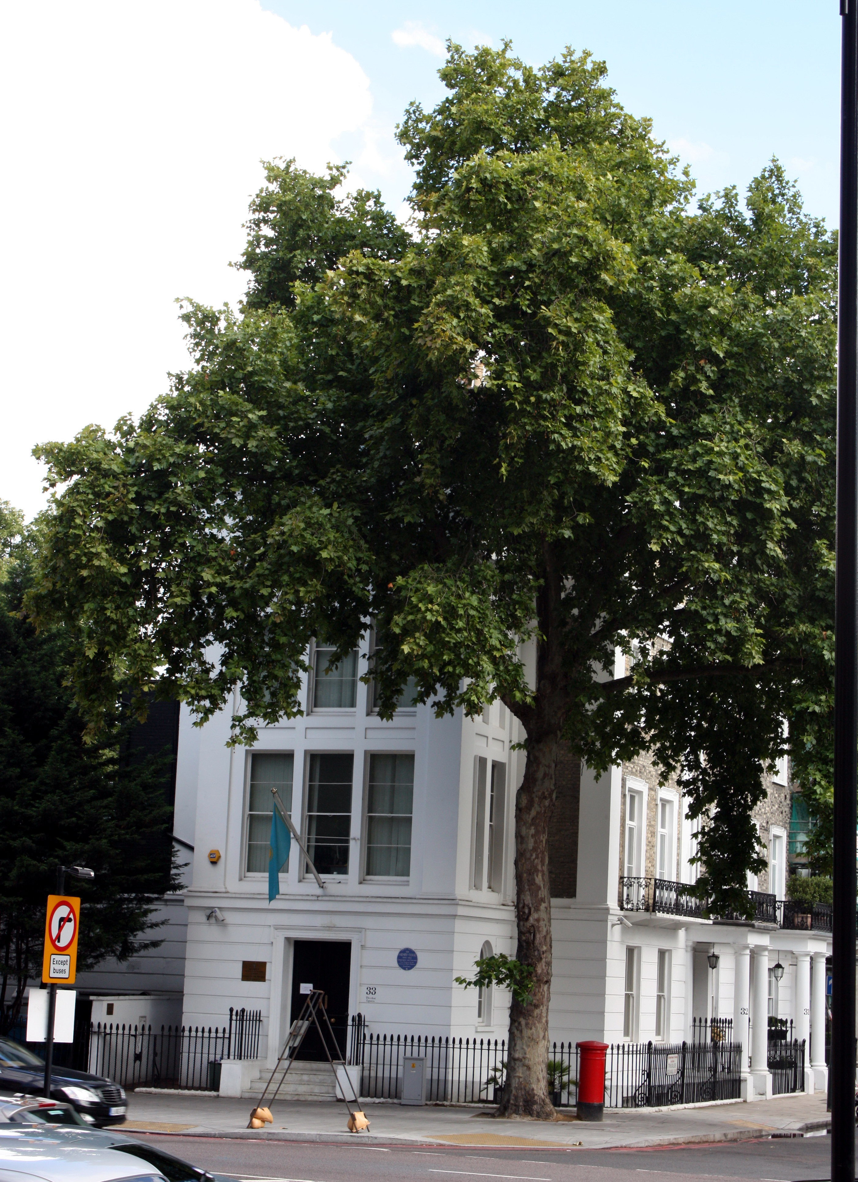 Kazakh Embasssy in London at 33 Thurloe Square, SW7.